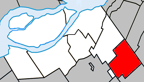 Location of Saint-Urbain-Premier, Quebec within Beauharnois-Salaberry Regional County Municipality.